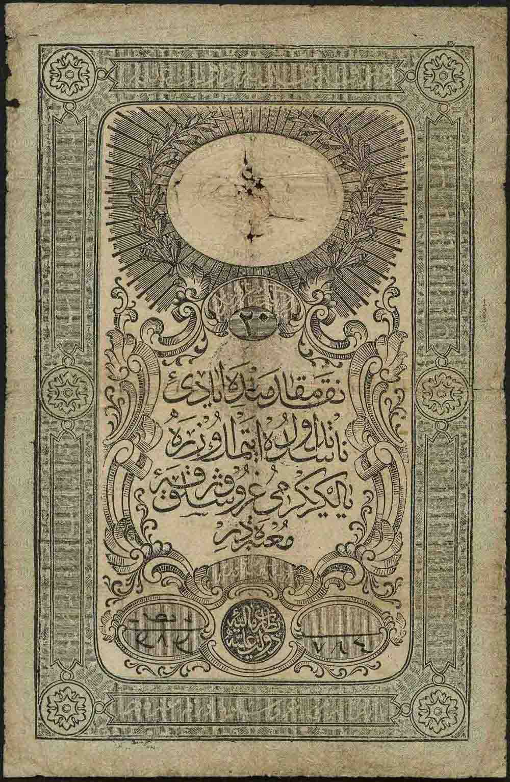 Ottoman banknote, 20 Kurush, 1852